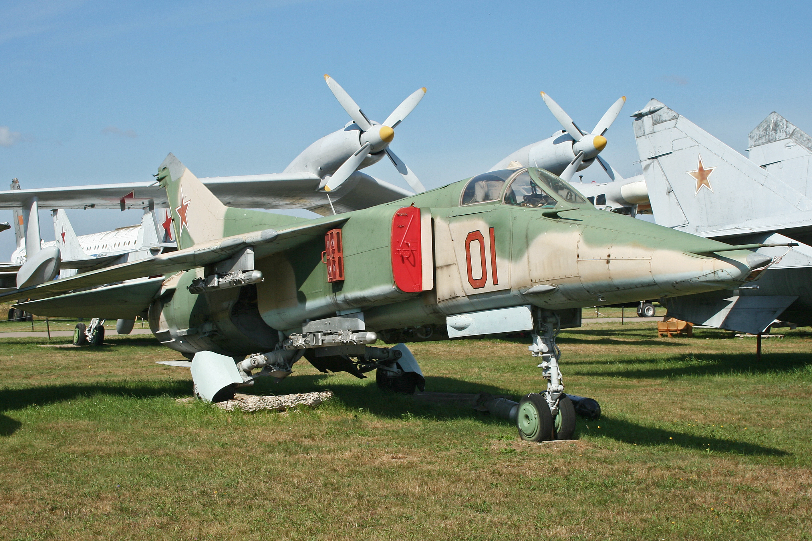 The MiG-27 was a dedicated ground attack version of the MiG-23. Most countries opted for the MiG-23BN instead, so it saw very little service outside of Russia. This aircraft was previously coded '01 yellow'. c/n 61912511018. On display at the Russian Air Force Museum. Monino, Russia. 13-8-2012